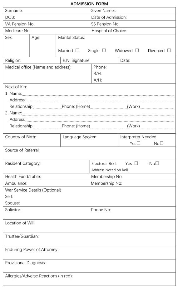 Figure 1. A sample admission form for an Australian residential aged care home.